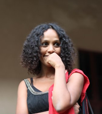 Cristina Ali Farah "L'Africa a scuola", a round table organised by lettera27, curated by Paola Splendore and Sandro Triulzi introduced by Livia Apa with Cristina Ali Farah, Gunilla Lundgren, Gabriella Sanna, Giorgio De Marchis. Mantova 09/12/09